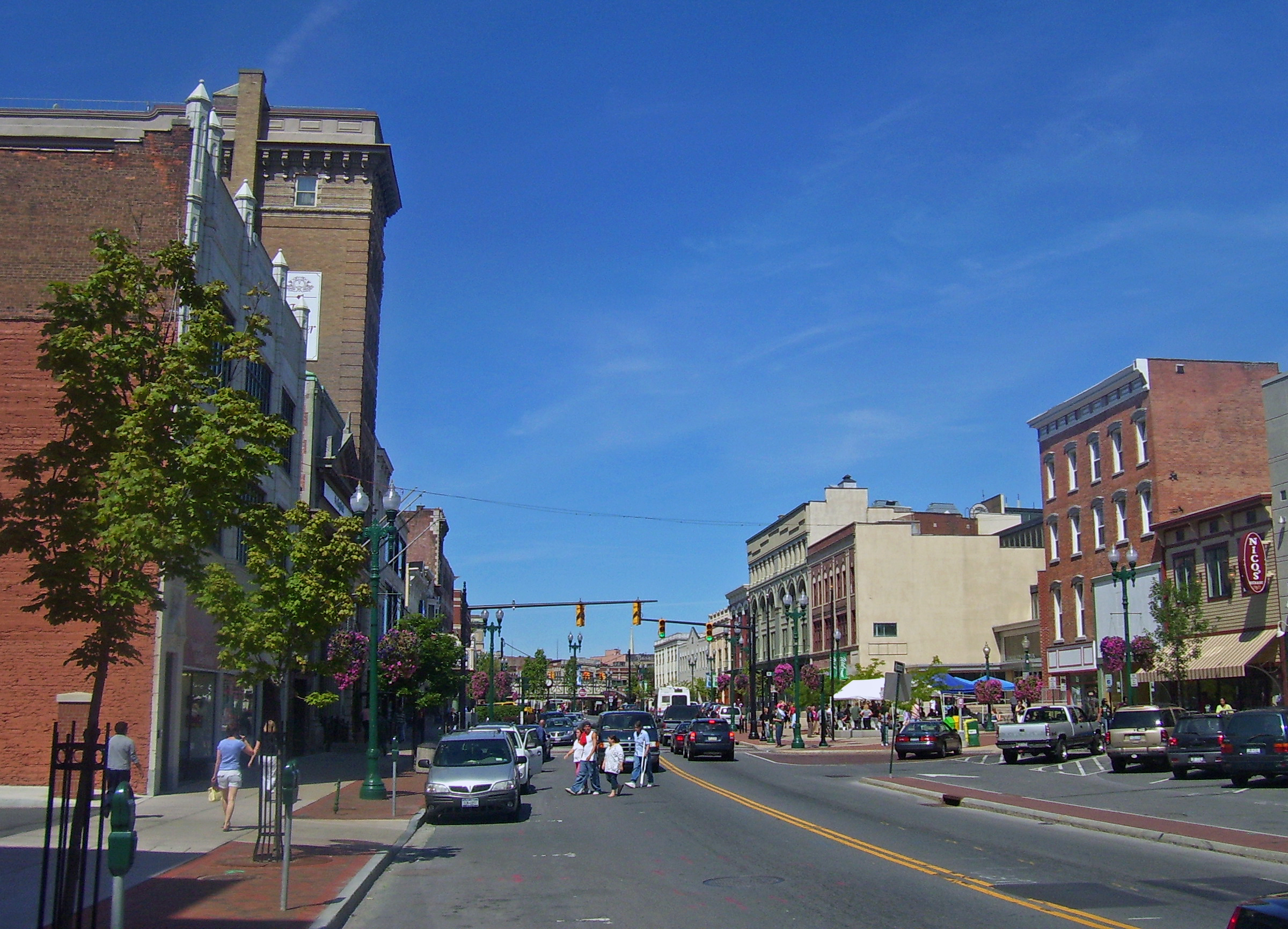 View west down State Street (NY 5) in Schenectady, NY, USA